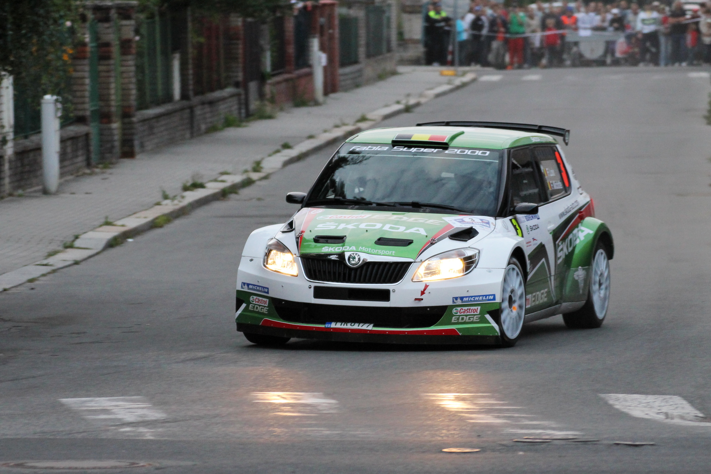 Rally Bohemia 2011 - Loix